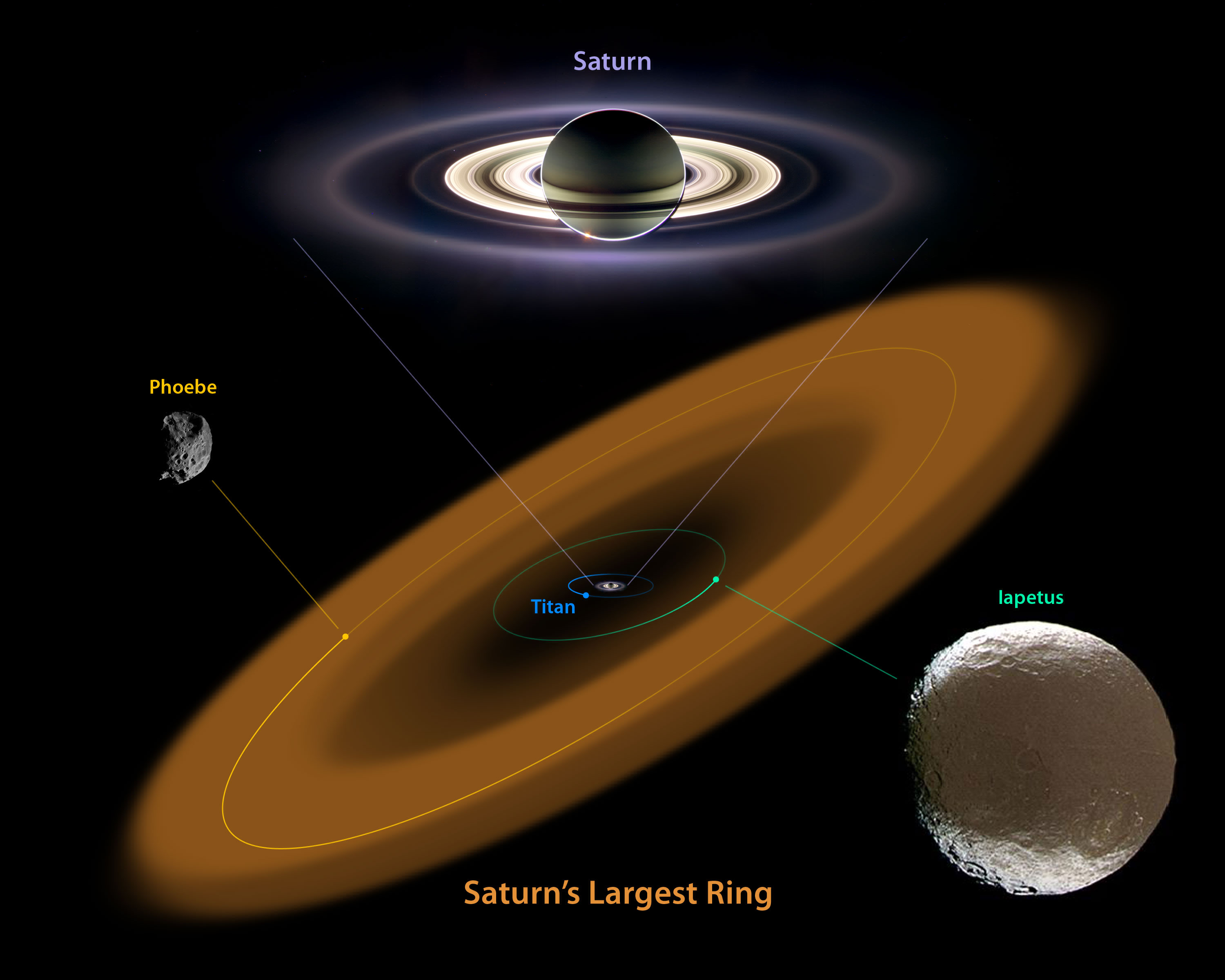 This diagram illustrates the extent of the largest ring around Saturn, discovered by NASA's Spitzer Space Telescope.